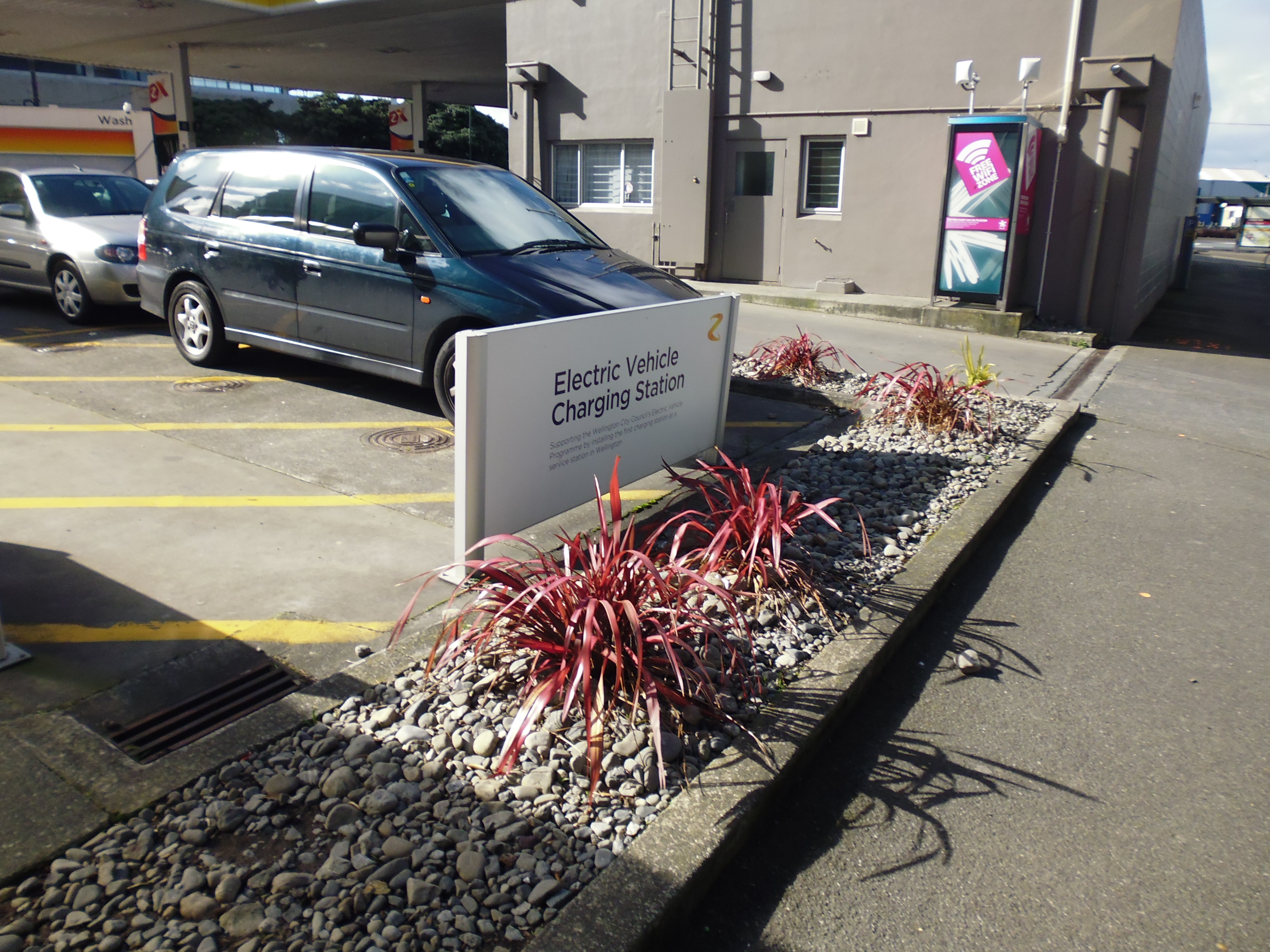 An electric car charging station in Wellington, New Zealand.